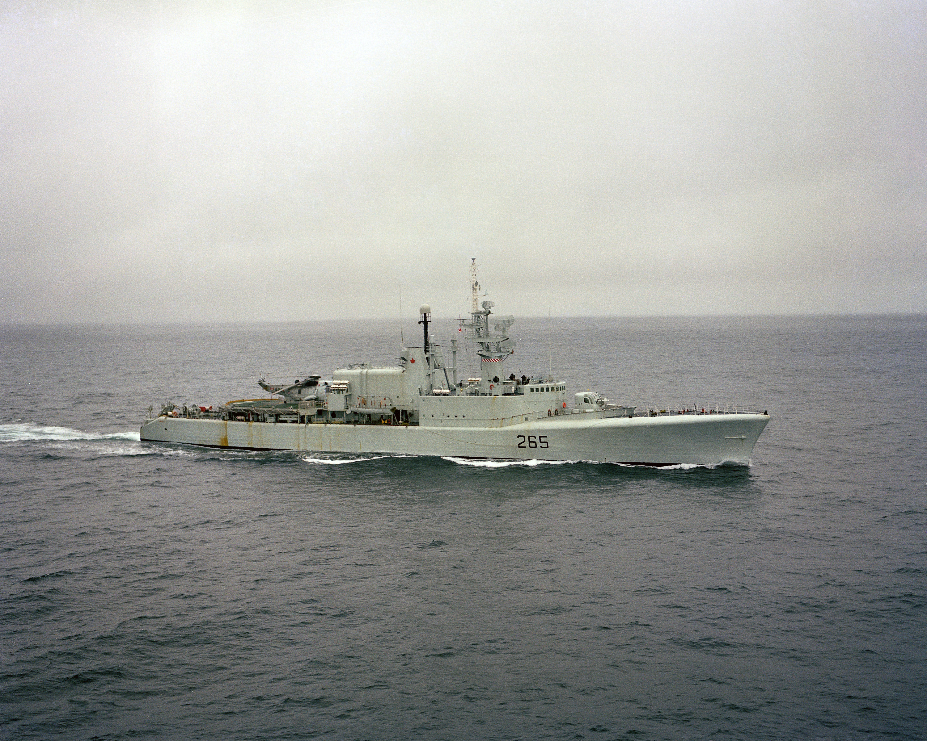 The Canadian destroyer HMCS Annapolis (DDH 265) underway in 1982.